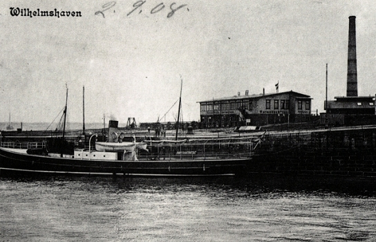 Strandhalle in Wilhelmshaven